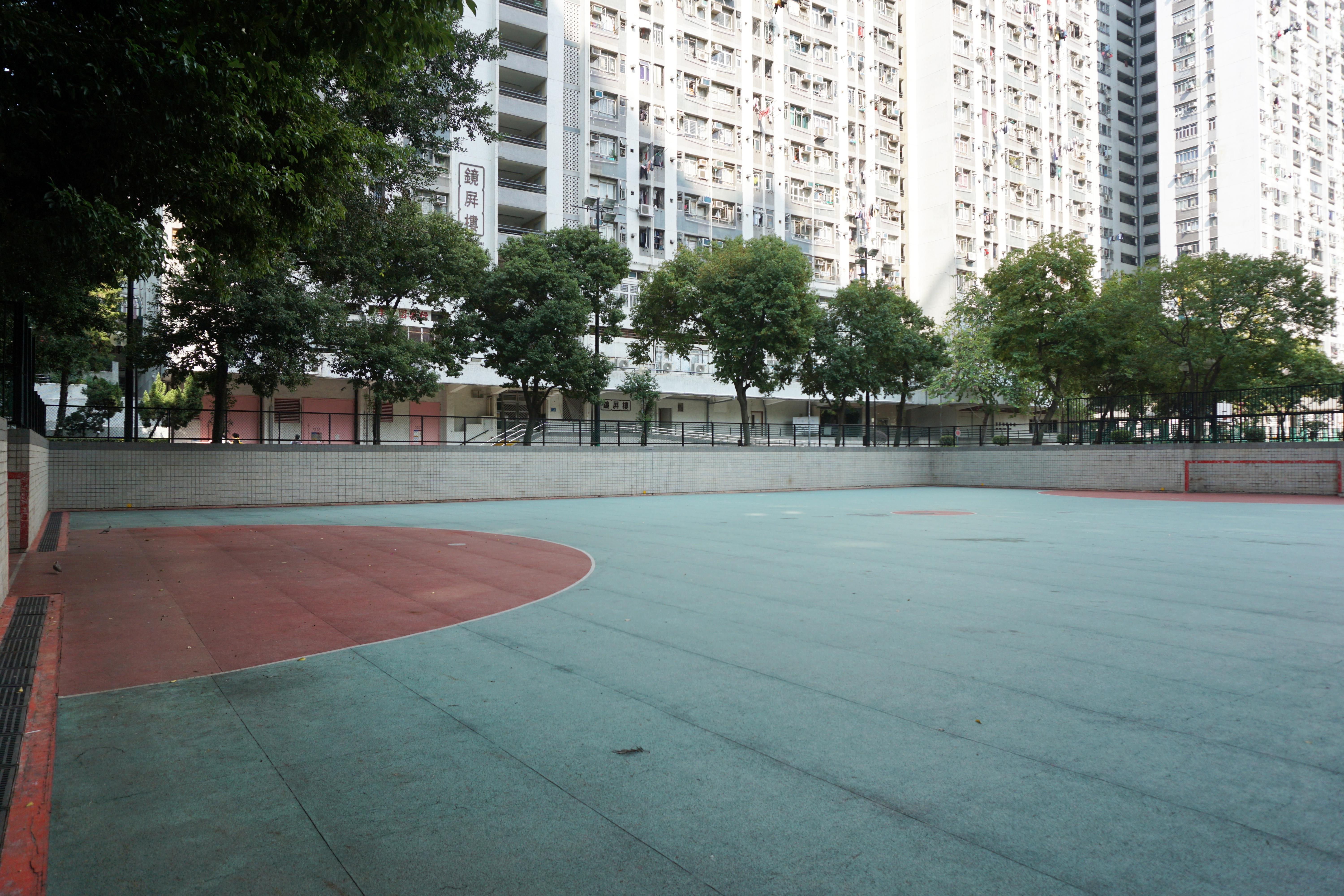 Long Ping Estate in Yuen Long, Hong Kong.